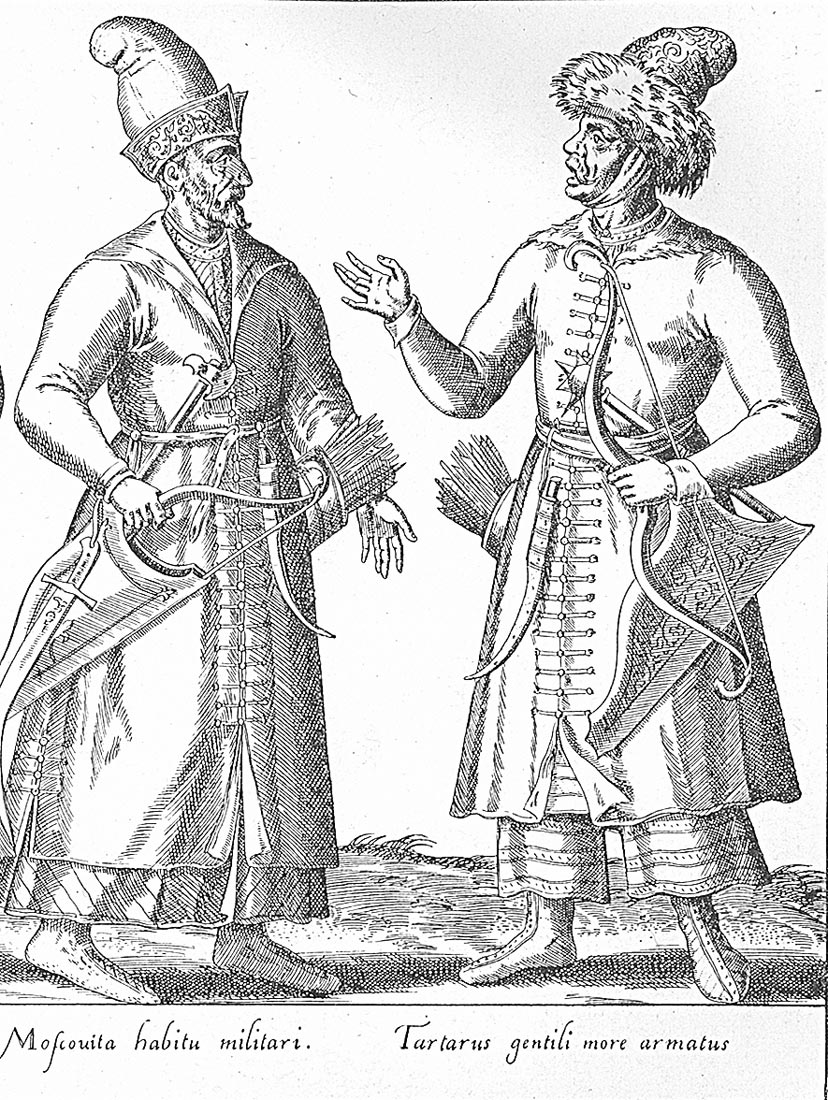 Muscovite and tatar mans.